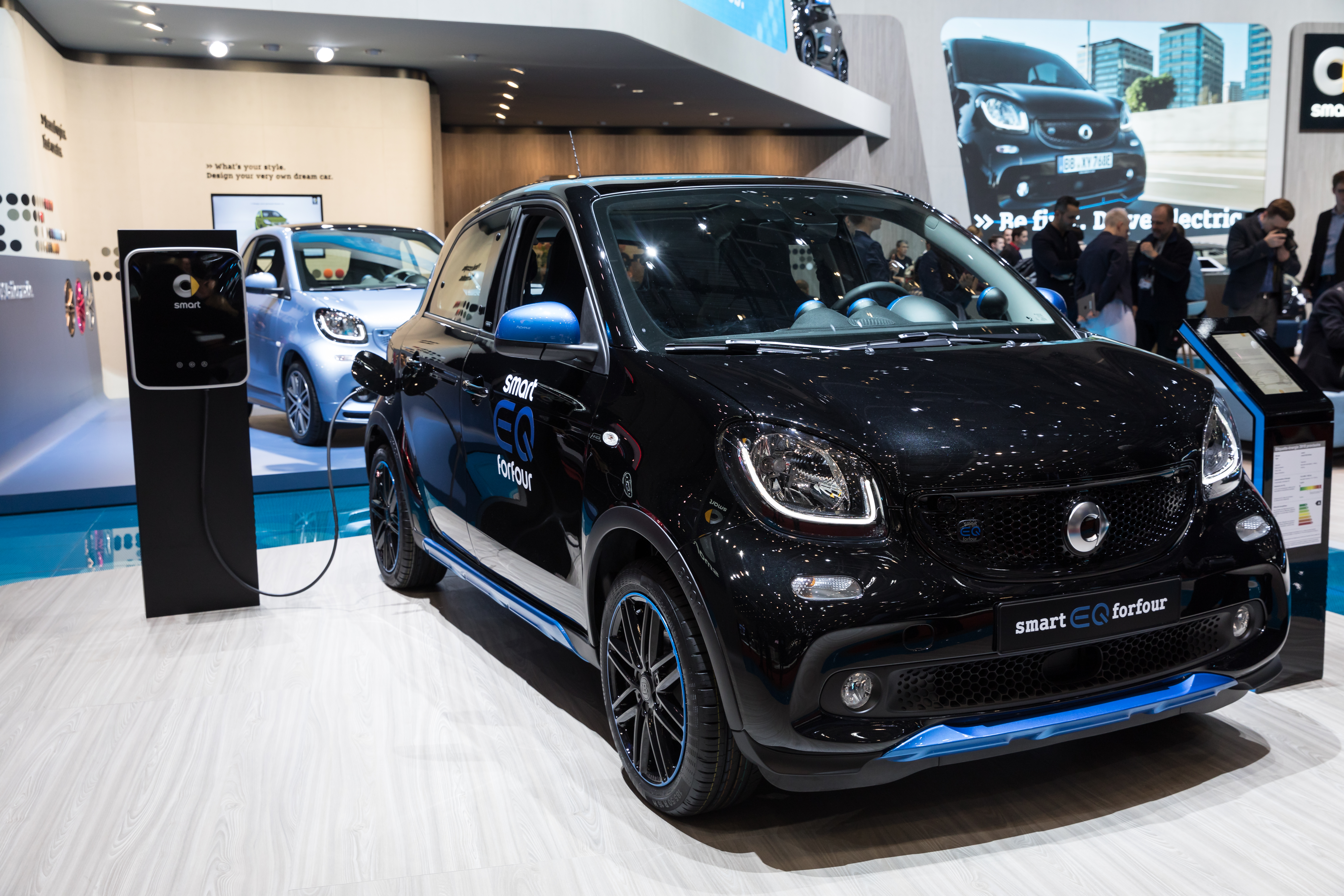 Geneva International Motor Show 2018